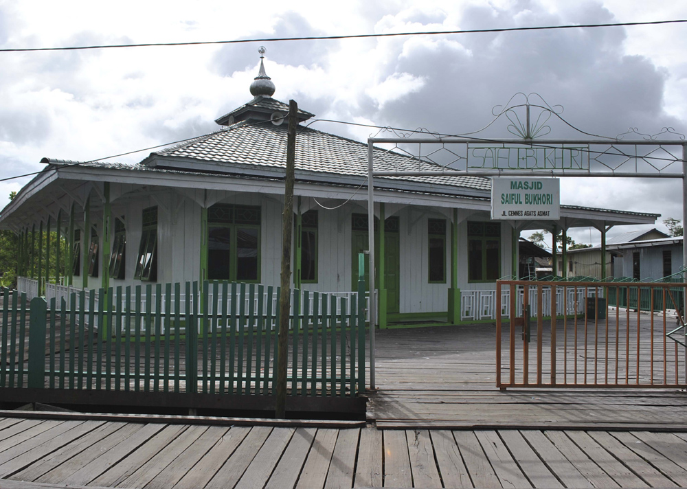 Mosque of Saiful Bukhori located in Agats